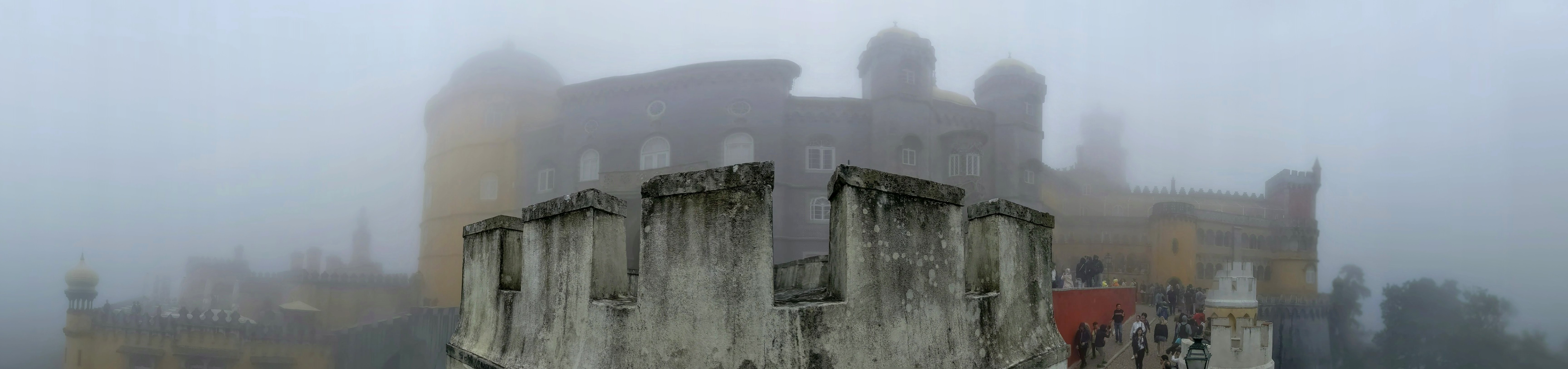 Panoramic view of Pena Palace in fog